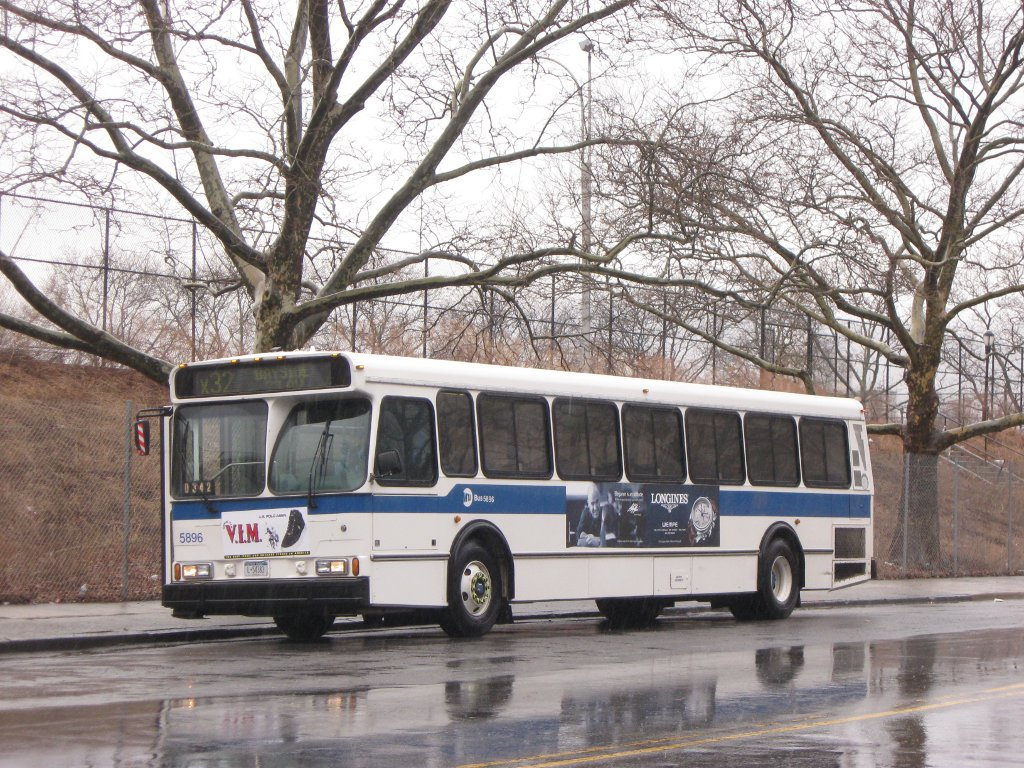 MTA New York City Transit Orion #5896 (mislabeled MTA Bus, from where it was transferred) (ex-Green Lines 1721 and NY Bus Service 1713) by the Bronx High School of Science on the X32 line. This bus is a single-door coach.